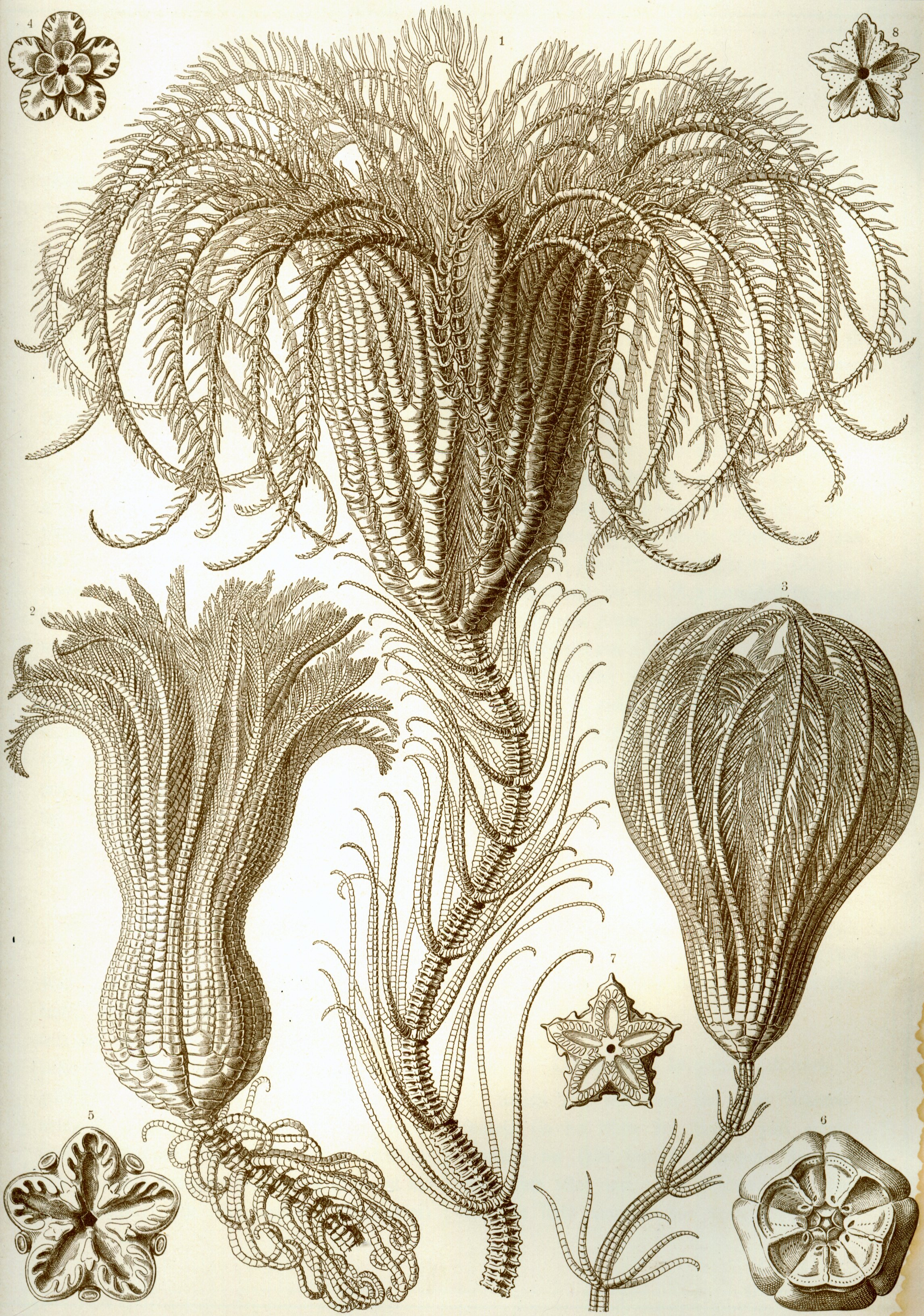 Metacrinus angulatus (Haeckel) = Saracrinus angulatus (Carpenter, 1884), habitus Pentacrinus Maclearanus (Haeckel) = Endoxocrinus maclearanus (Thomson, 1872), habitus Pentacrinus Wyville-Thomsonii (Haeckel) = Endoxocrinus wyvillethomsoni (Huxley, 1859), habitus Pentacrinus Wyville-Thomsonii (Haeckel) = Endoxocrinus wyvillethomsoni (Jeffreys, 1870), stem ossicle Pentacrinus Wyville-Thomsonii (Haeckel) = Endoxocrinus wyvillethomsoni (Jeffreys, 1870), stem ossicle Pentacrinus Wyville-Thomsonii (Haeckel) = Endoxocrinus wyvillethomsoni (Jeffreys, 1870), stem ossicle Metacrinus angulatus (Haeckel) = Saracrinus angulatus (Carpenter, 1884), stem ossicle Metacrinus angulatus (Haeckel) = Saracrinus angulatus (Carpenter, 1884), stem ossicle